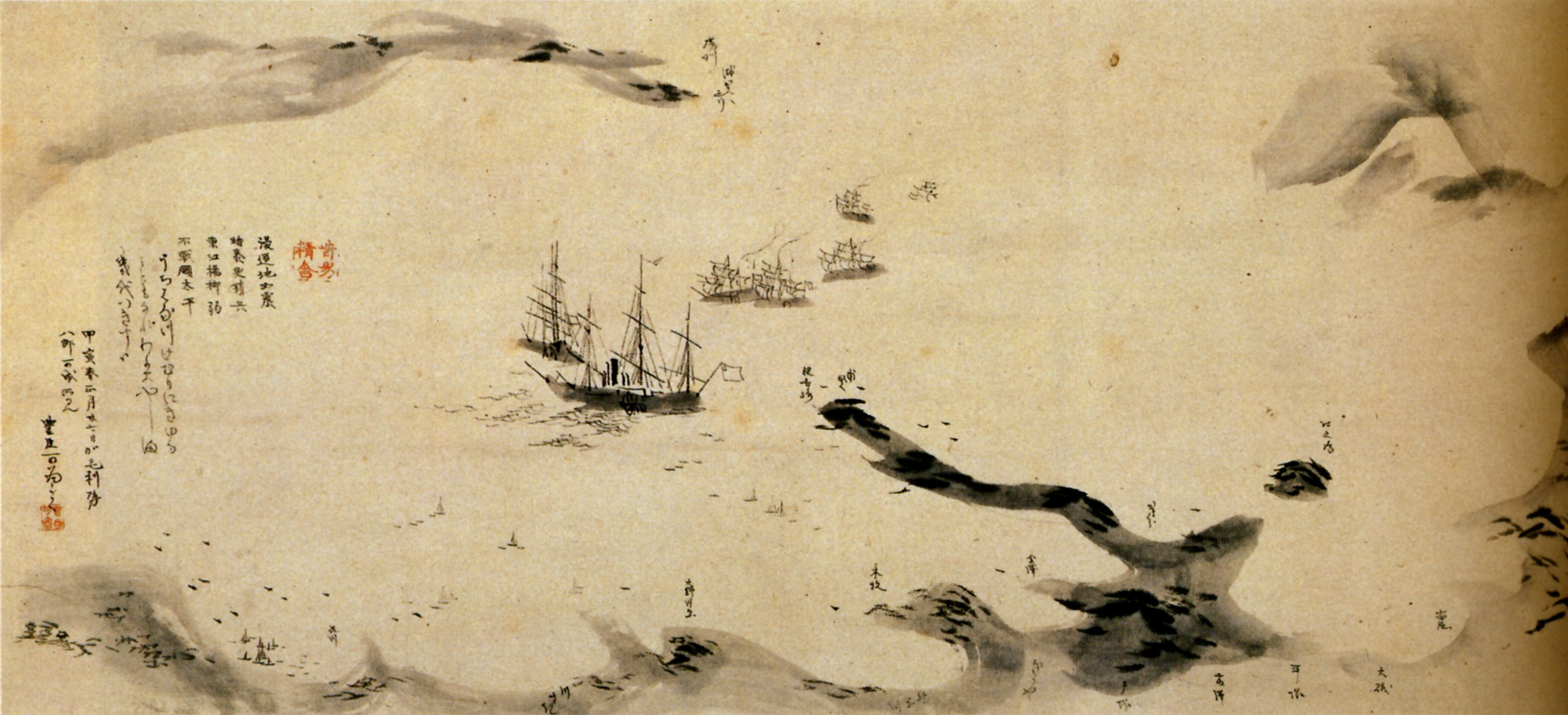 Ukita Ikkei,American Fleet Porting Uraga,ink on paper,hanging scroll,Kyoto National Museum